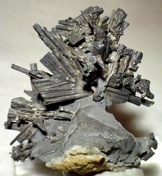 Dyscrasite Locality: Uranium Mine No. 21, Příbram, Central Bohemia Region, Bohemia (Böhmen; Boehmen), Czech Republic (Locality at ) An excellent cluster of lustrous, twinned dyscrasite crystals with matrix. Some of the crystals reach 2.5 cm, and the twins to almost 2 cm. Although this is an old location from which dyscrasite was known a long time ago, many specimens on the market come from a few small pockets found in the 1980s. Most of these important specimens came out rather clunky, or so jumbly the crystals had little individual definition in context, but this miniature stands out amongst nearly all I have seen for the overall aesthetics and quality as well. 4.5 x 4.5 x 3.3 cm